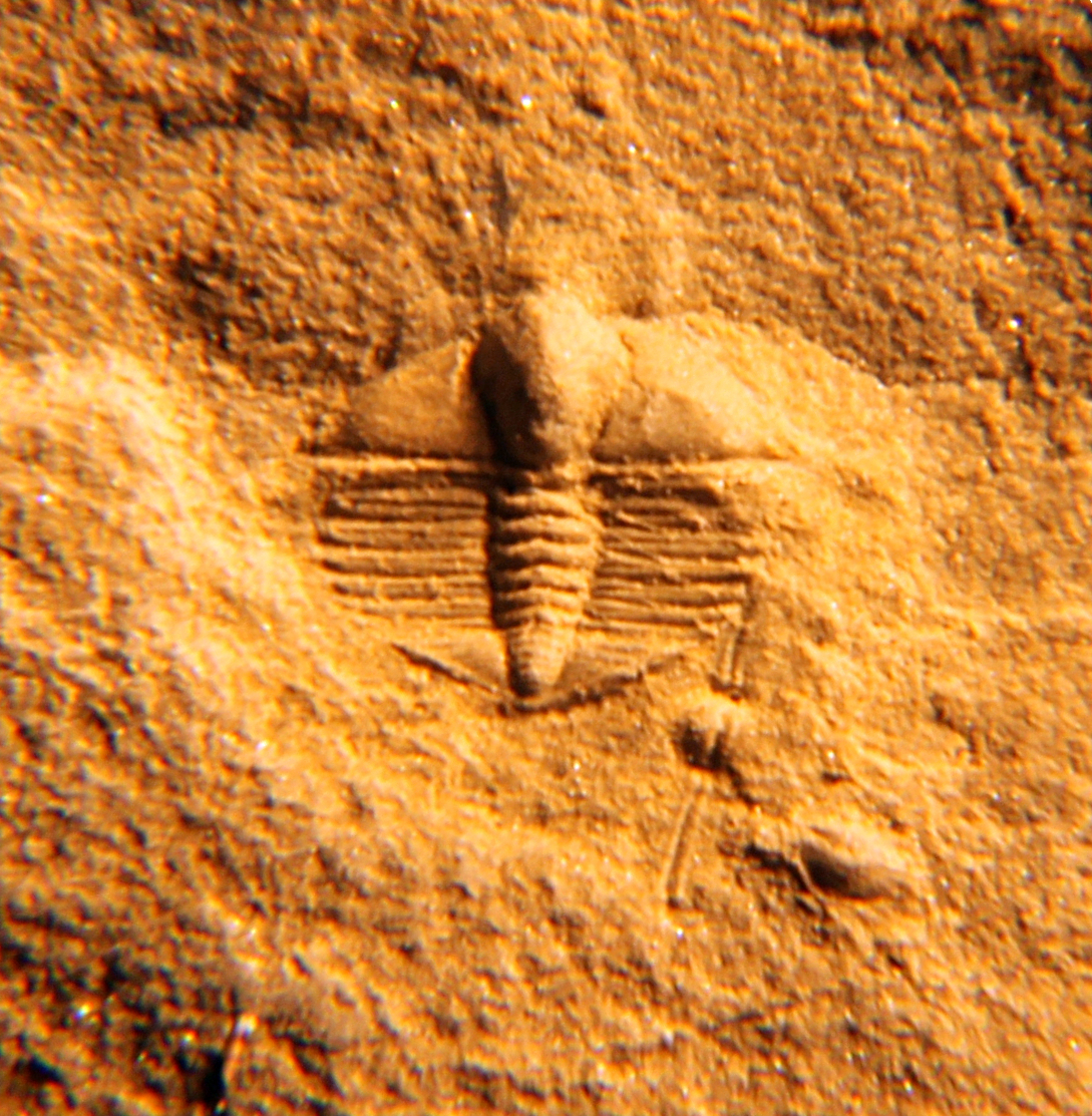 Positive inprint of the trilobite Lonchodomas suriensis, 4 mm long as seen, Order Asaphida, Family Raphiophoridae, collected in the Eastern Cordillera, Argentina, late Lower Ordovician (Llanvirn)